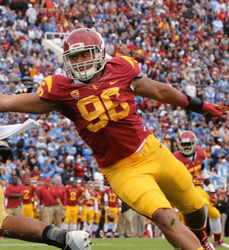 USC Trojans defensive end, Wes Horton, playing against the UCLA Bruins on November 17, 2012.